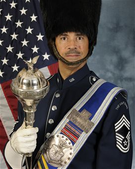 Chief Master Sergeant Edward J. Teleky, Drum Major of the USAF Band